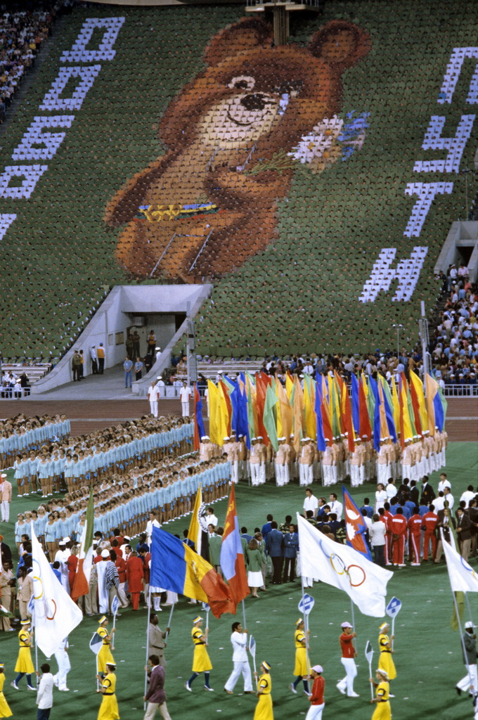 “Flag-bearers of states-participants of the XXII Summer Olympic Games”. Flags of national and international Olympic committees of the states-participants of the XXII Summer Olympic Games carried out for the closing ceremony. Central Lenin Stadium.